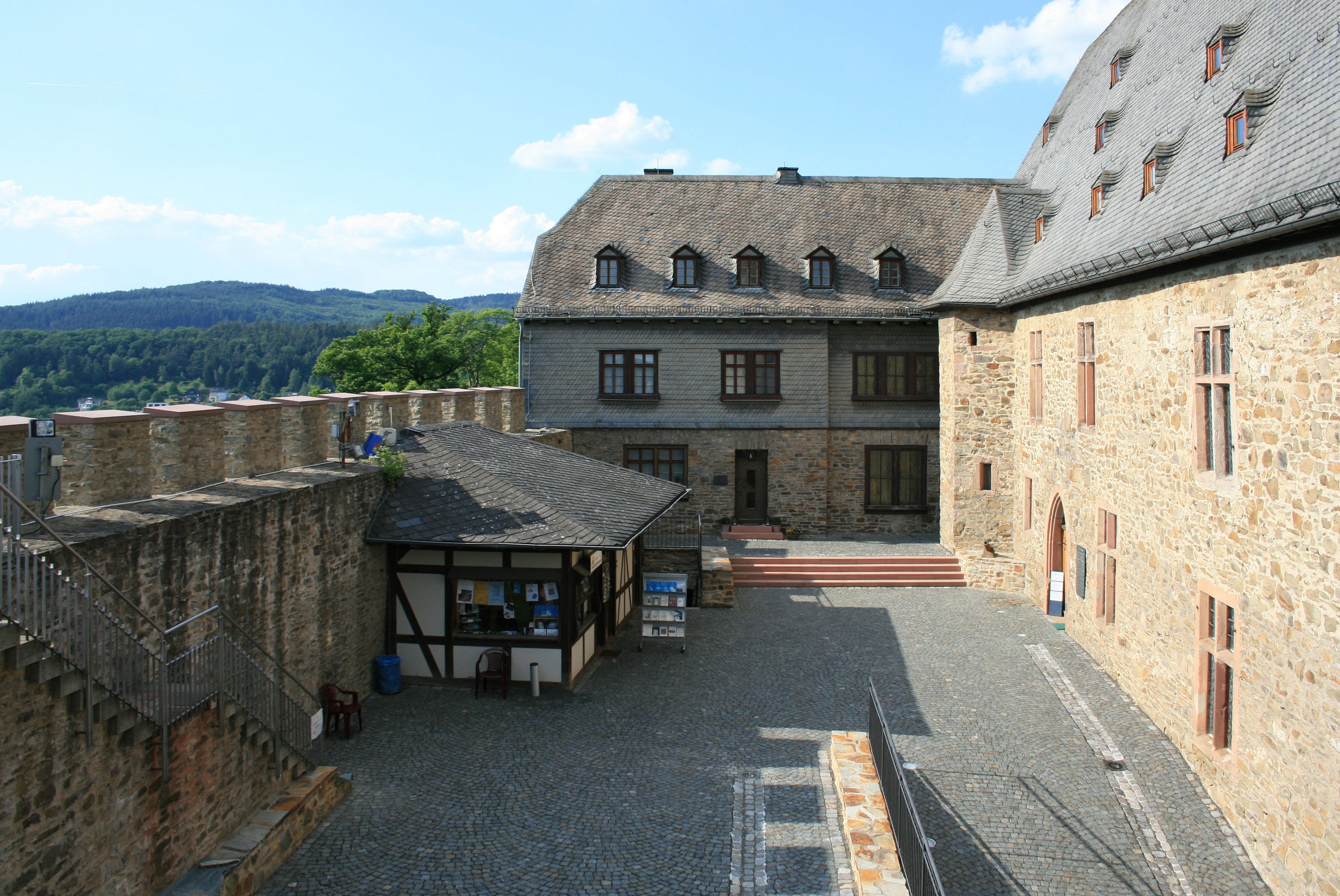 Germany, Hesse, Biedenkopf: Biedenkopf castle; patio with new pavement.